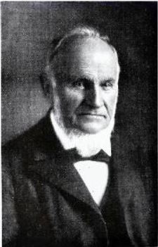 Photo of Ebenezer Vickery, Sydney, Australia